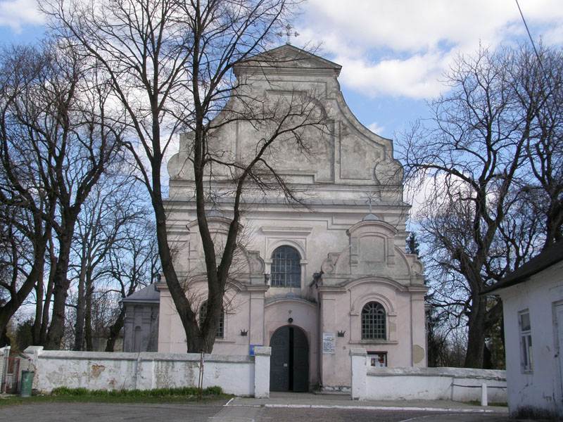 Saint Michael Archangel church in Wojsławice, Poland